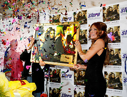 Elena Paparizou being awarded a platinum disc. Taken by camera. Free Image!